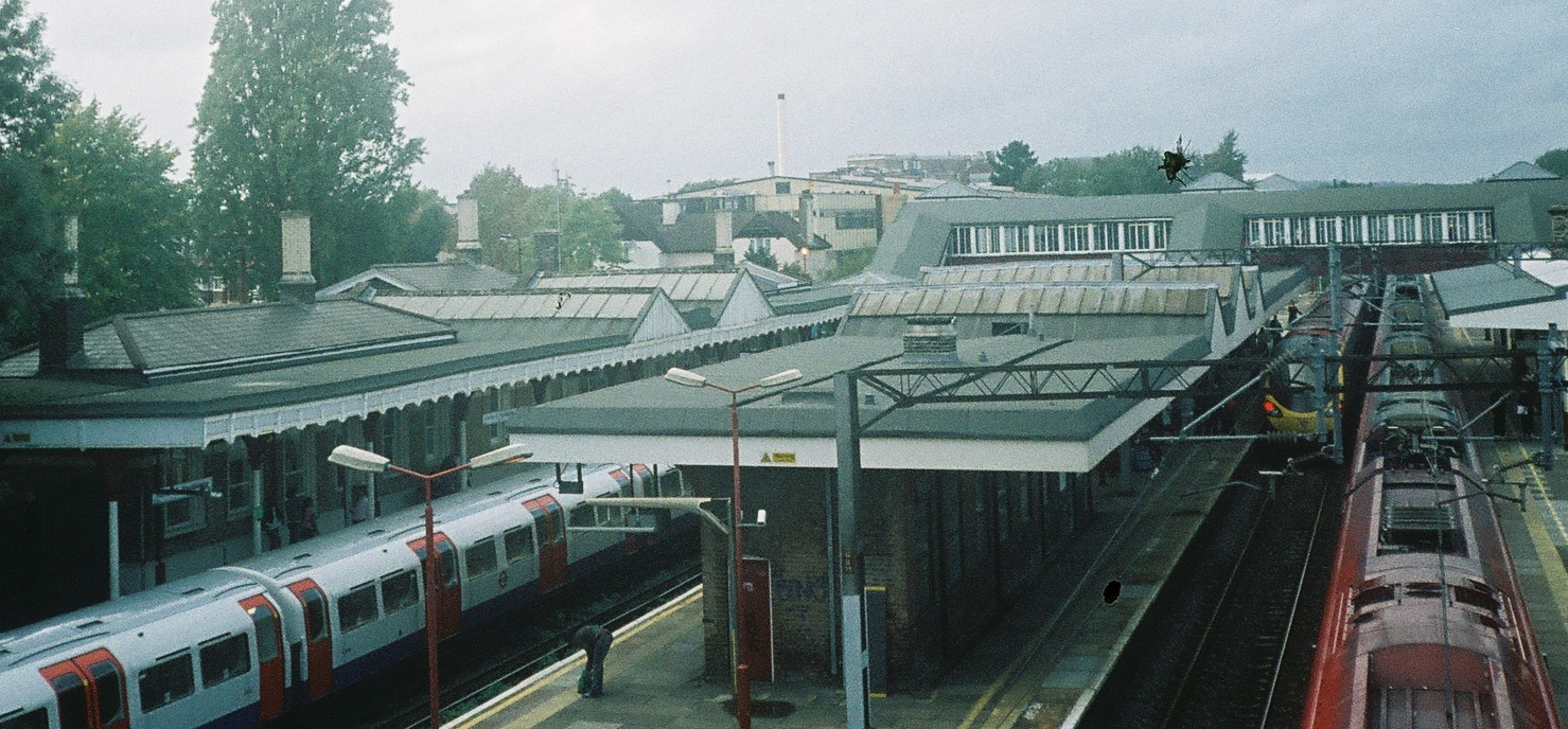 Picture of Harrow and Wealdstone station.